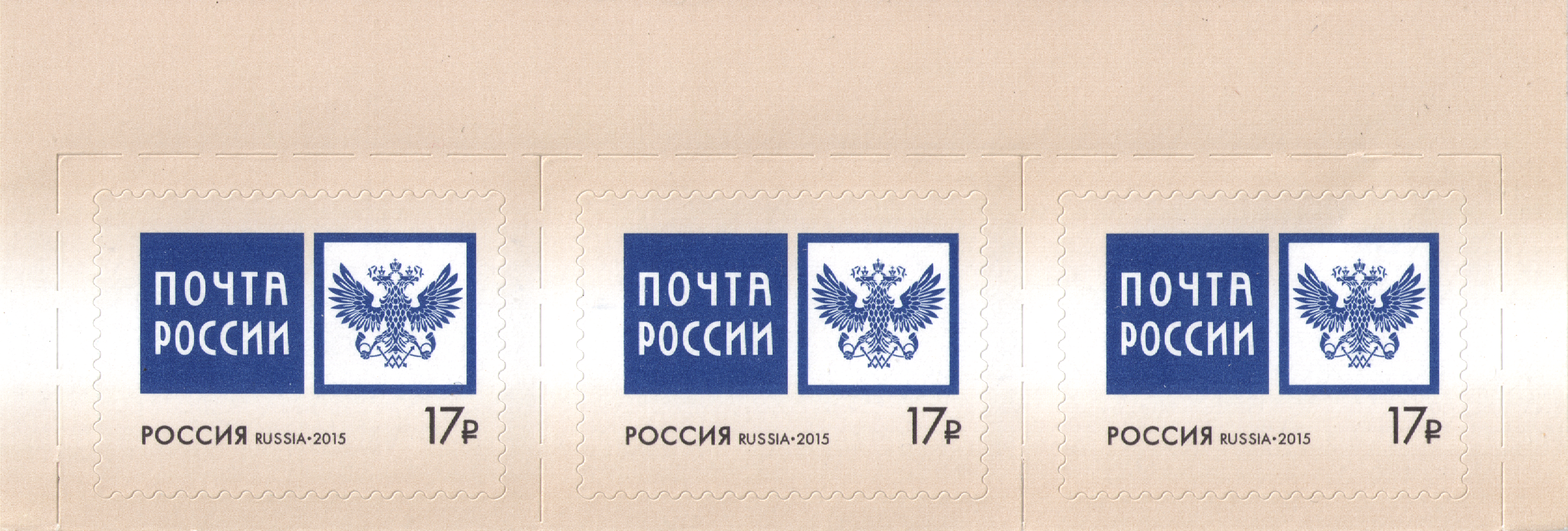 Russian postal stamps with Russian Postal Service logo. Cost 17 rubles.